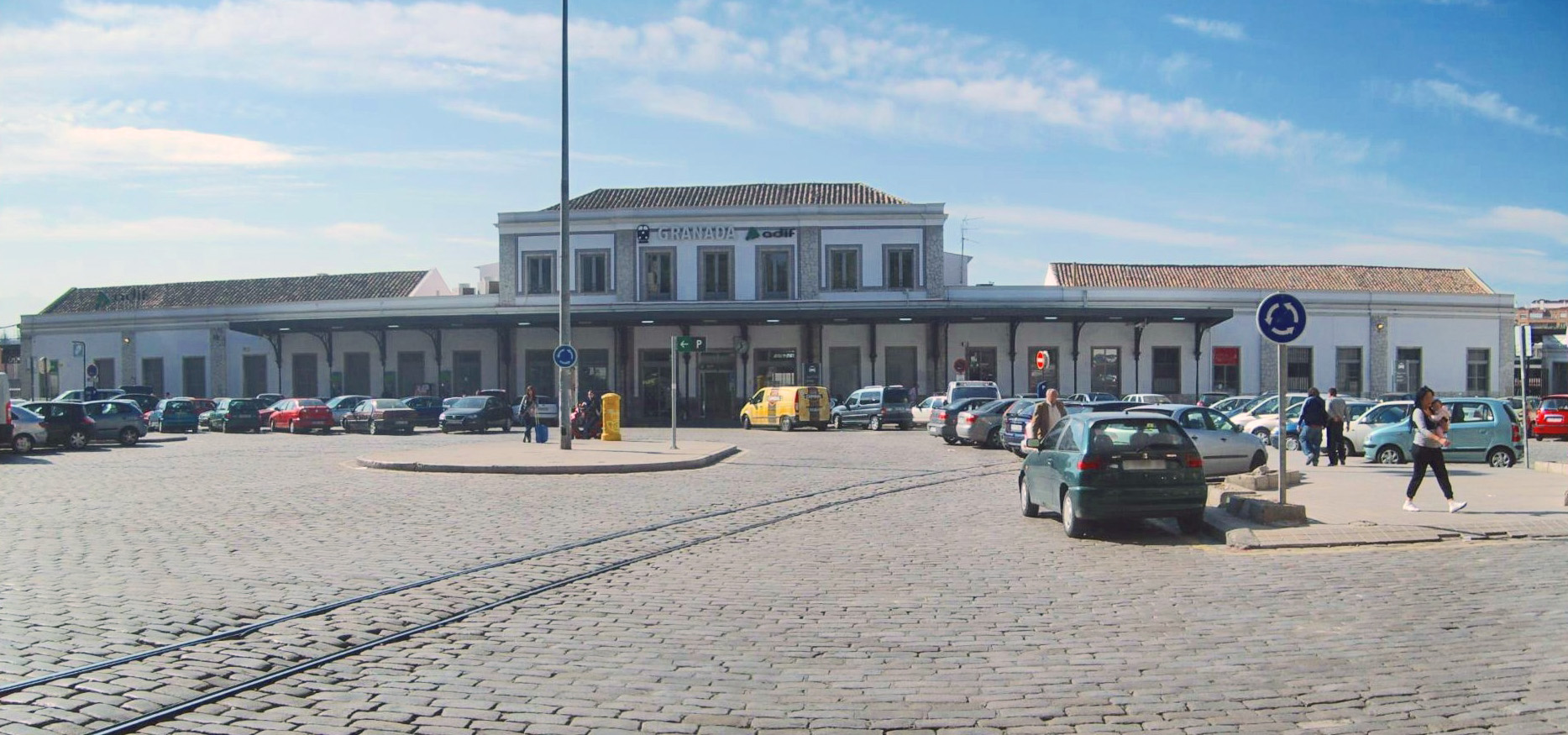 Granada train station (Andalusia, Spain).